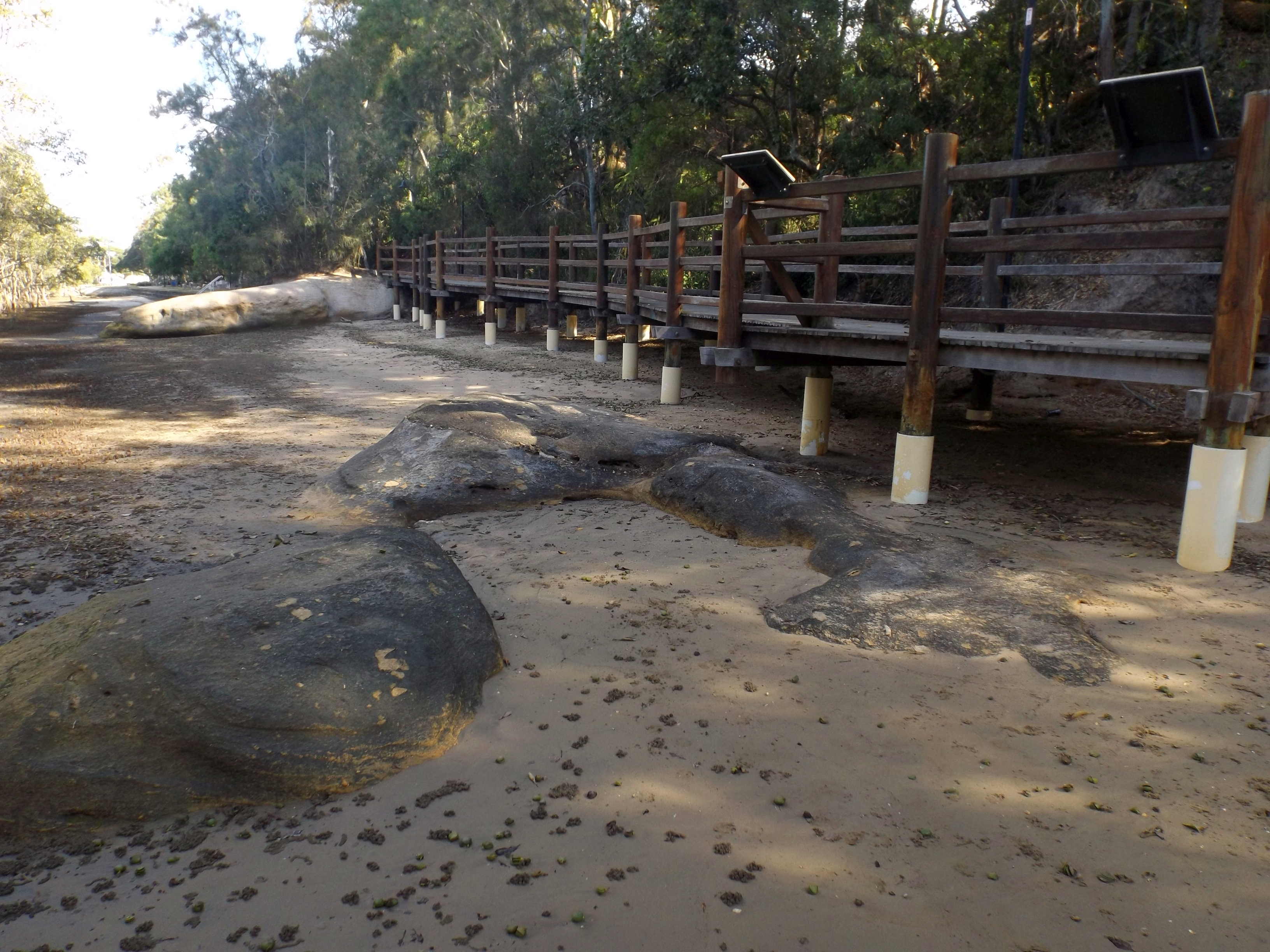 Photo of boardwalk and Deception Bay Sea Baths at Deception Bay, Moreton Bay Region, Queensland, Australia.